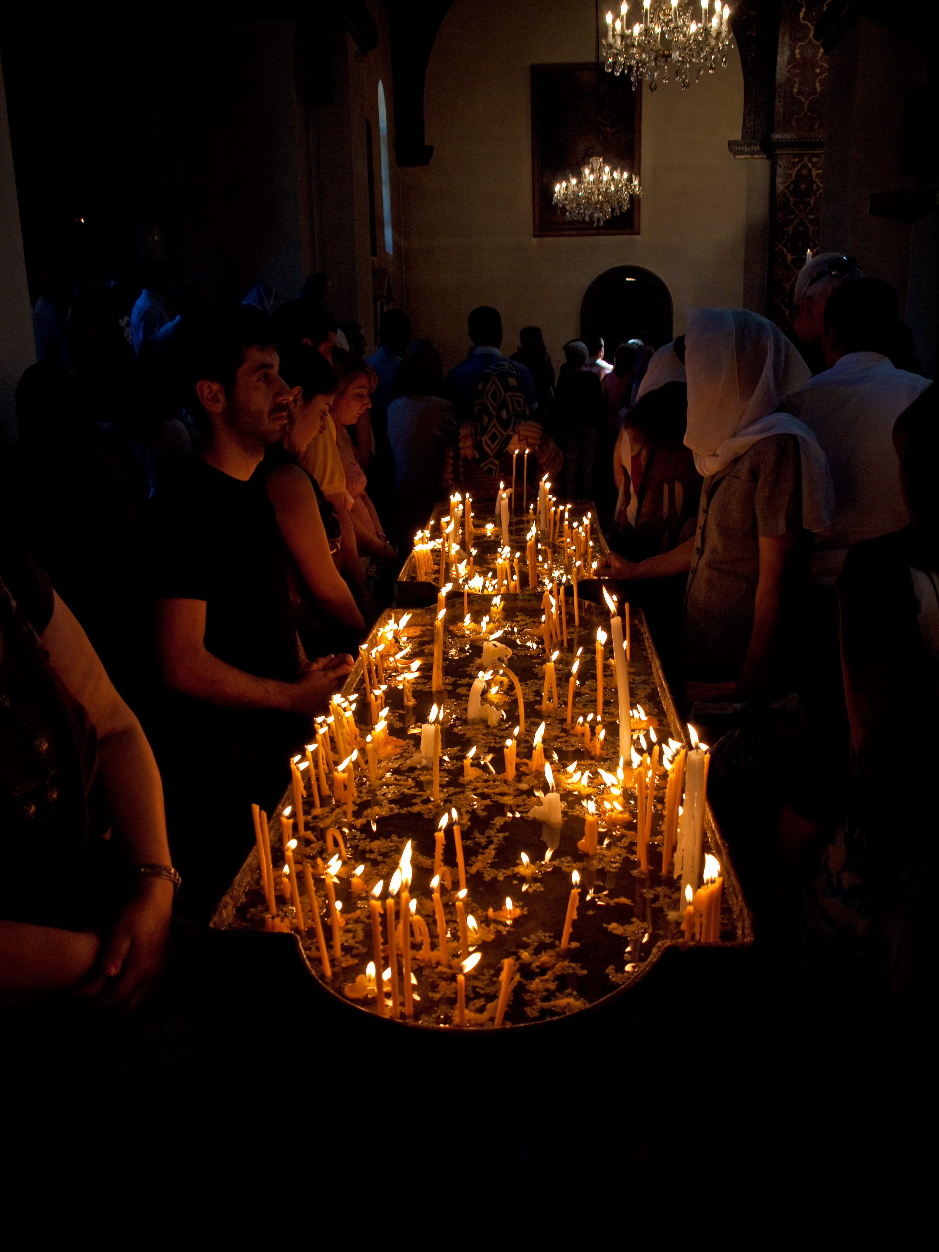 Armenia - Day 2 - 19 September 2010. The religious centre of the Armenian Apostolic Church and a UNESCO World Heritage Site. Armenia was the first known country to adopt Christianity as it's state religion (301 AD). The thing that was very noticeable to me as a secular outsider was the sense of community, companionship and warmth in church services.